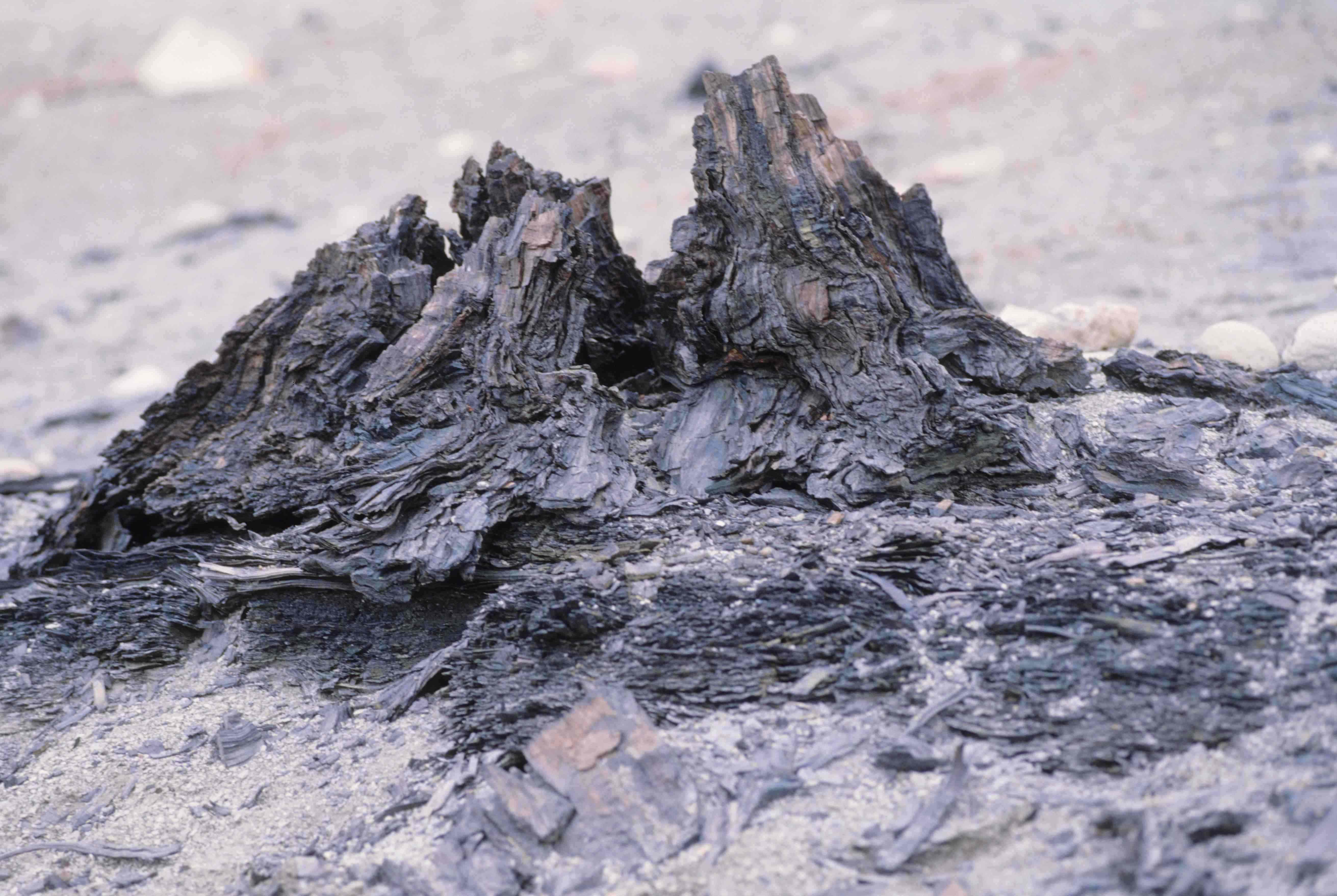 Mummified stump of a Metasequoia (dawn redwood) tree on Geodetic Hills of Axel Heiberg Island